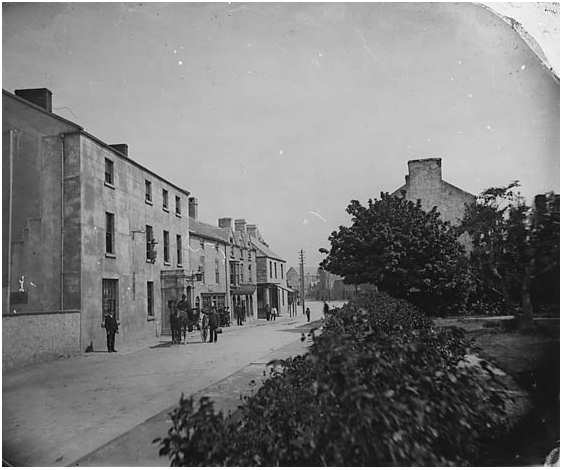 Rhyddhawyd at ddefnydd Wikipedia gan Lyfrgell Genedlaethol Cymru o John Thomas Collection gasgliad John Thomas For more information see User:Paul Bevan or National Library of Wales The Bee Hotel, Abergele. Shows street with hotel, shops and horsedrawn carriage. C 1875. 1 negative : glass, wet collodion, b&w ; 16.5 x 21.5 cm. (WlAbNL)003381774